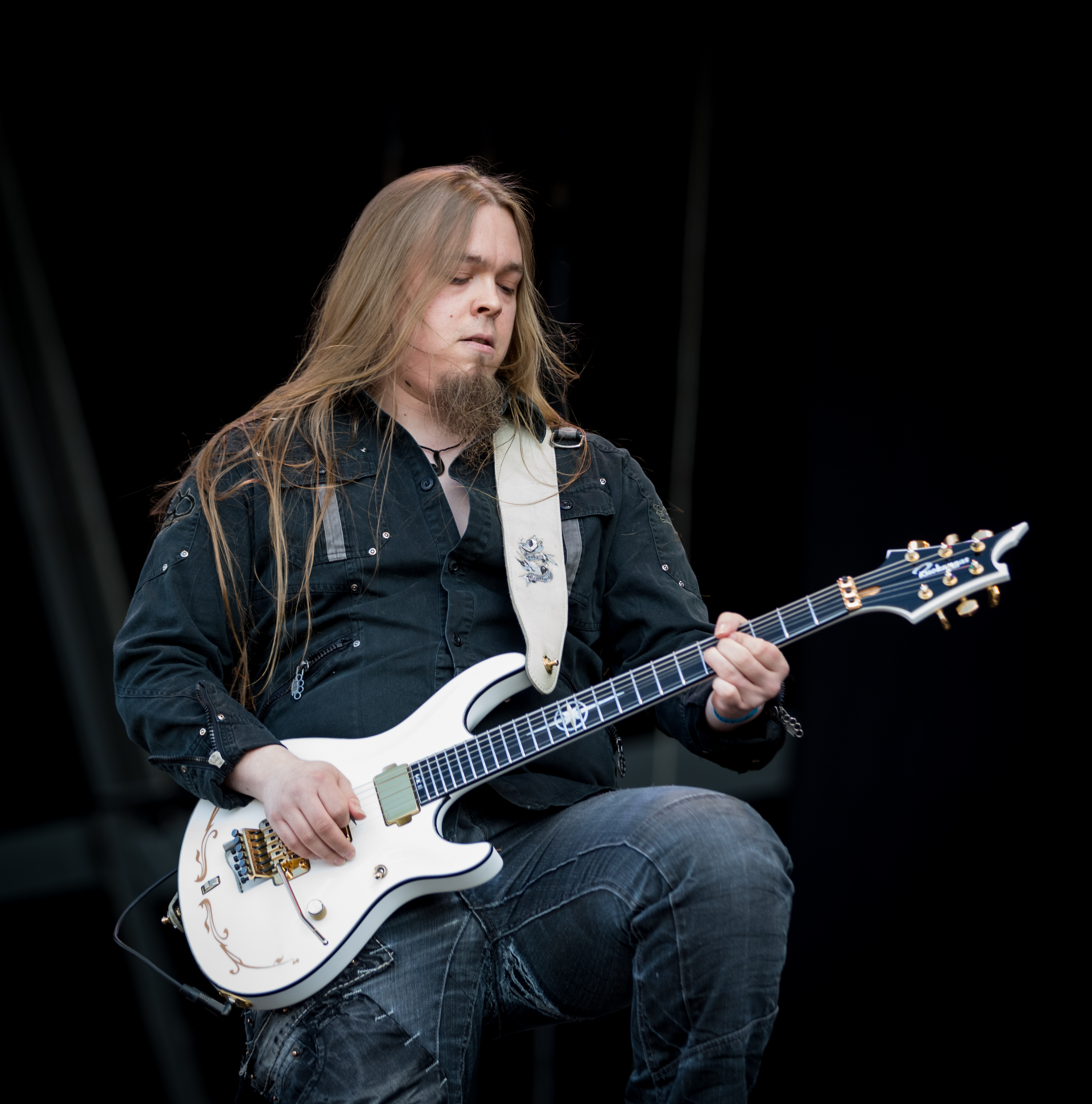 Stratovarius - Wacken Open Air 2015